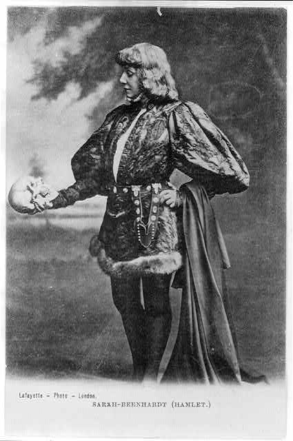 Sarah-Bernhardt (Hamlet) / Lafayette - photo - London. Print shows Sarah Bernhardt as Hamlet, full-length portrait, standing, facing left, holding and looking at skull. MEDIUM: 1 photomechanical print (postcard).